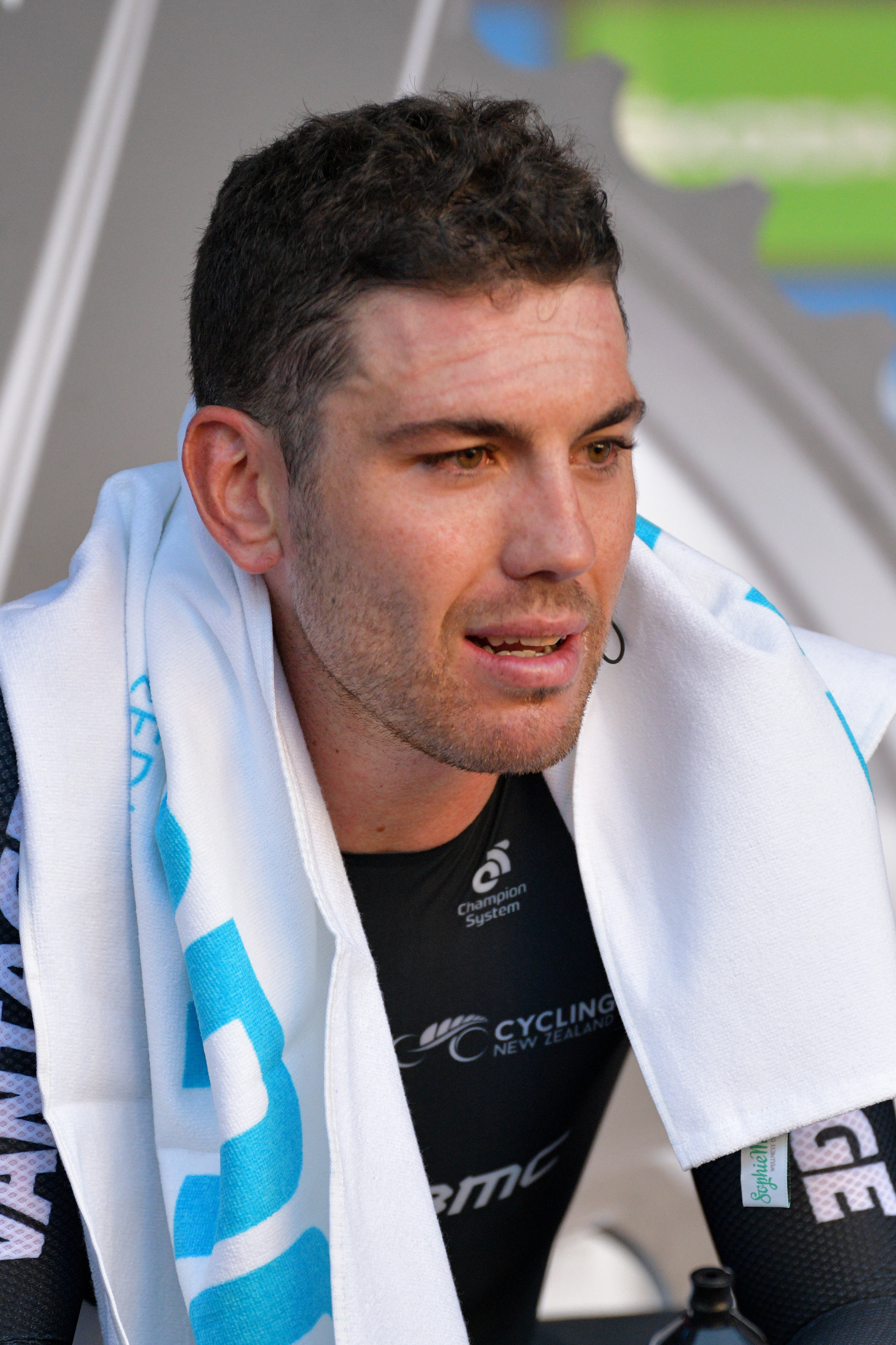 2018 UCI Road World Championships Innsbruck/Tirol Men's Individual Time Trial. Picture shows: Patrick Bevin of New Zealand